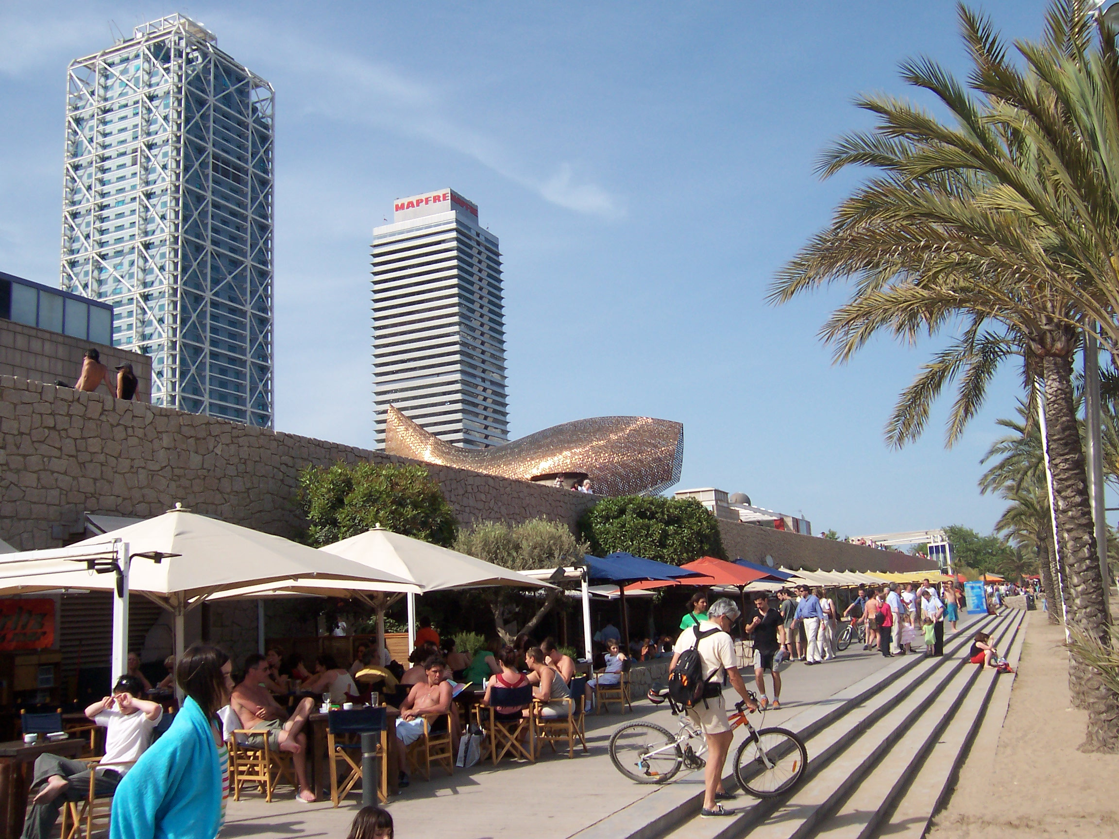 Barceloneta Beach, in Barcelona.